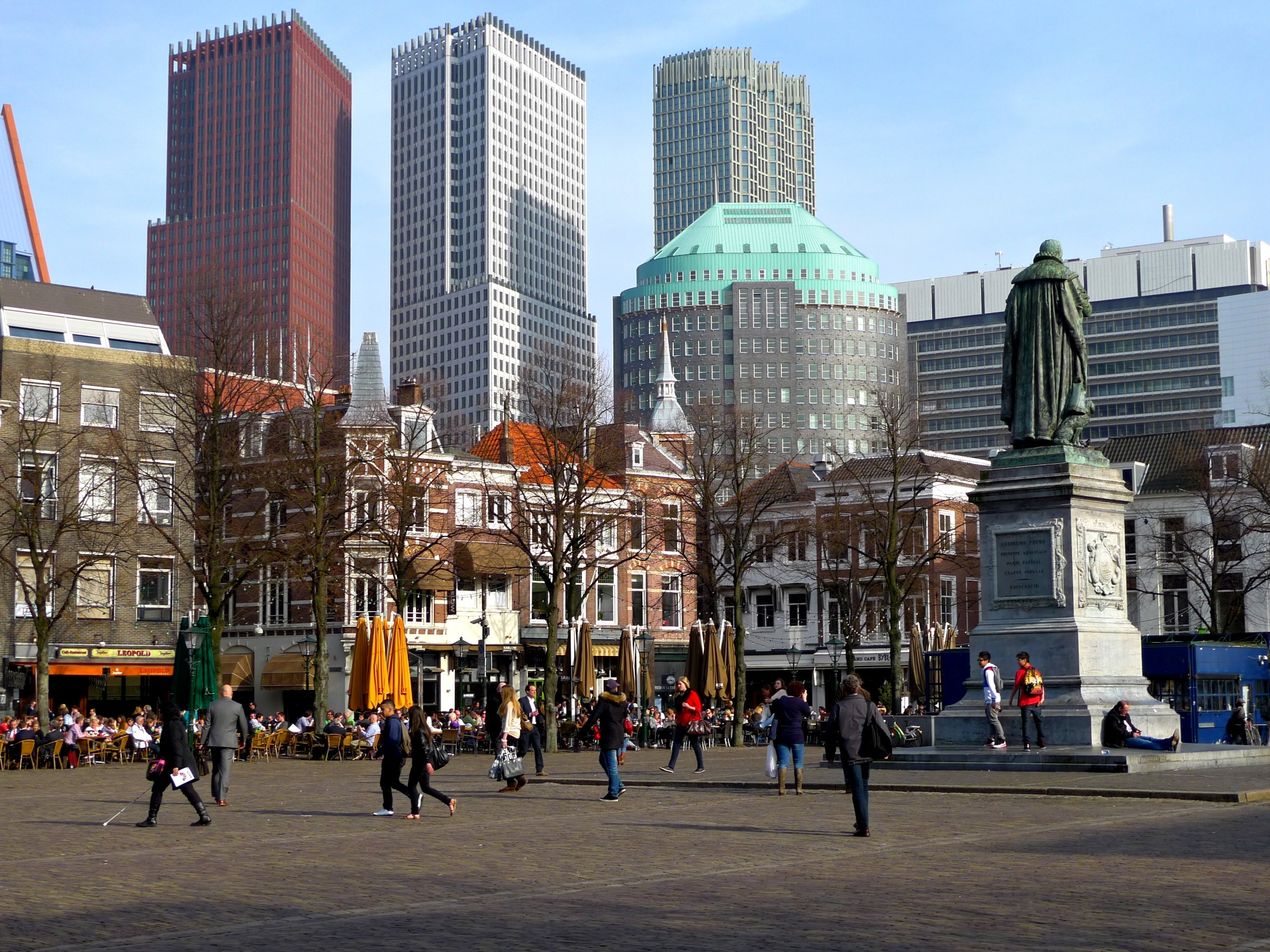 The Plein (square) in The Hague, the Netherlands